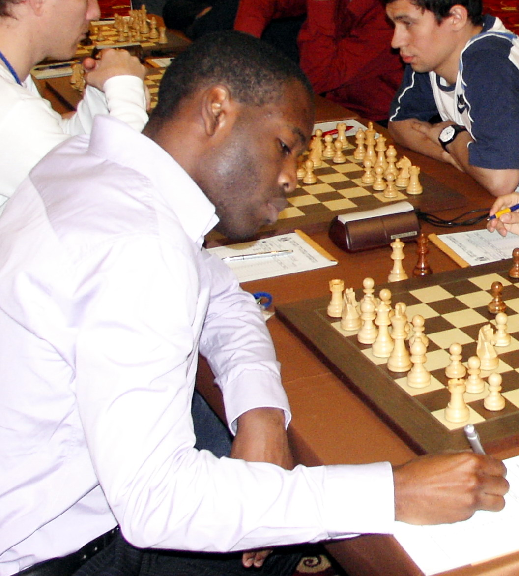 GM Pontus Carlsson (Sweden), Heraklion 2007